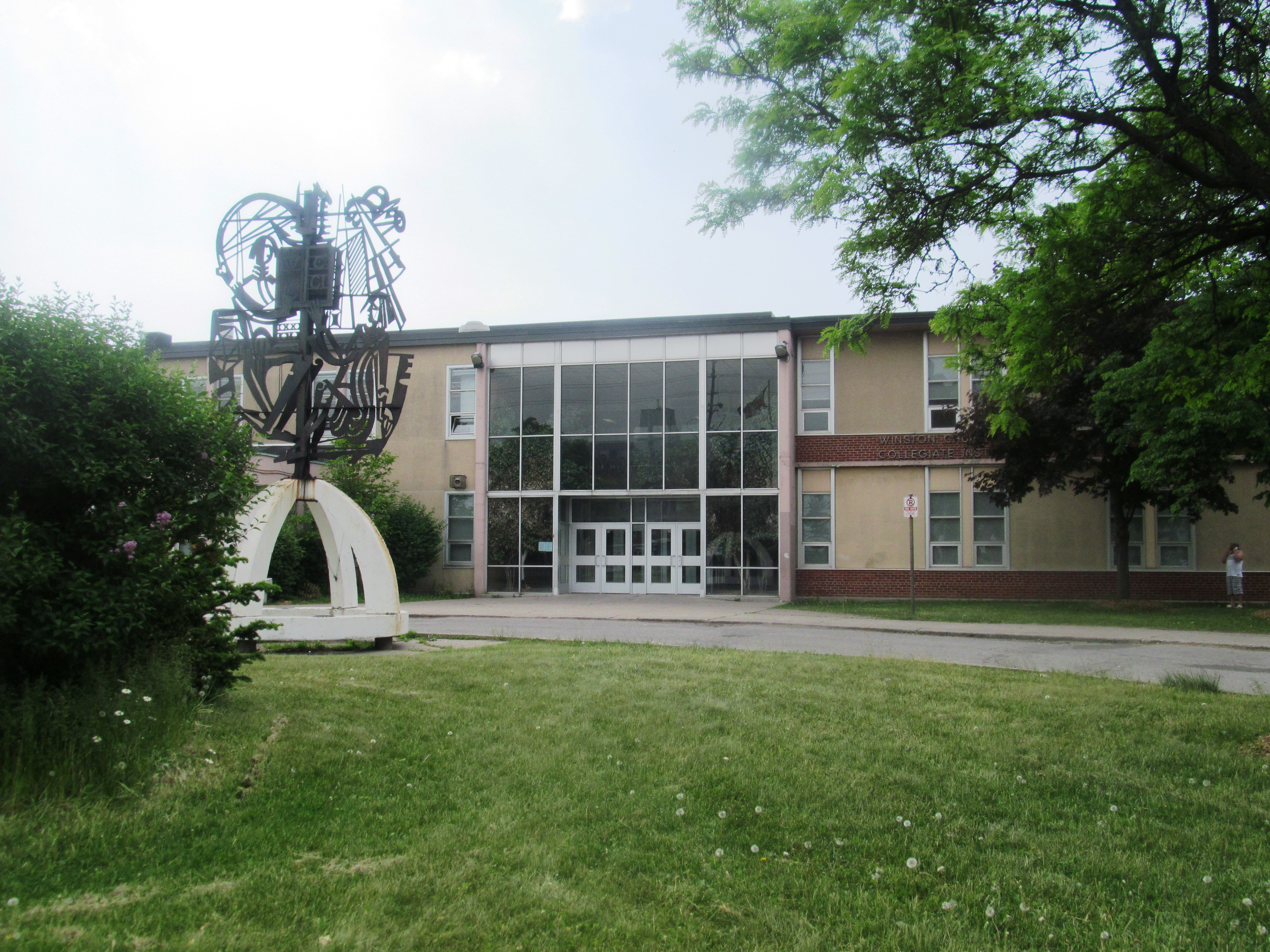 View of Winston Churchill CI, July 2013.